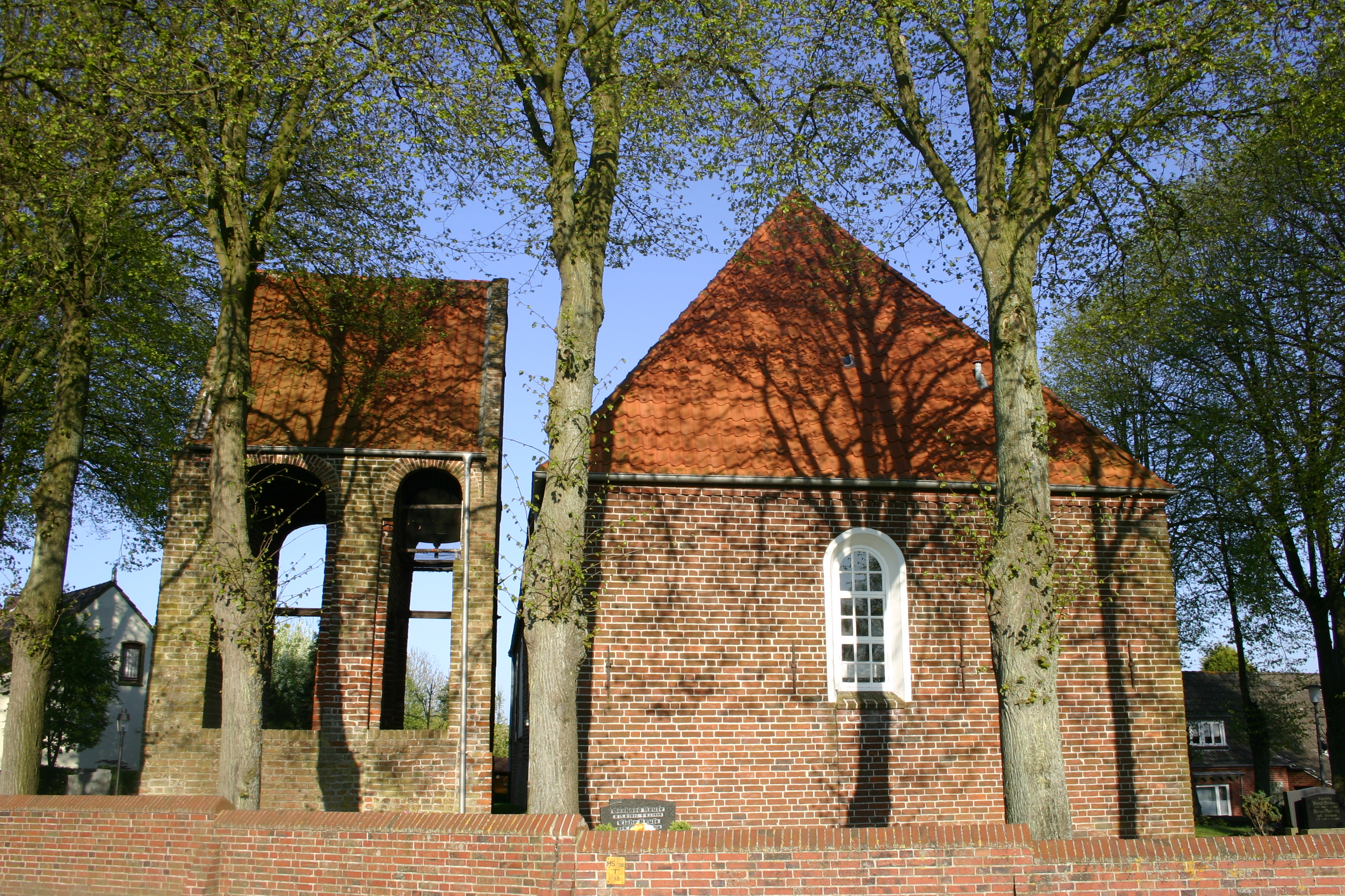 Historic church in Borssum, city of Emden, East Frisia, Germany